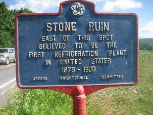 Historic marker of stone ruin of first Refrigeration Plant in the United States, 1875-1900.